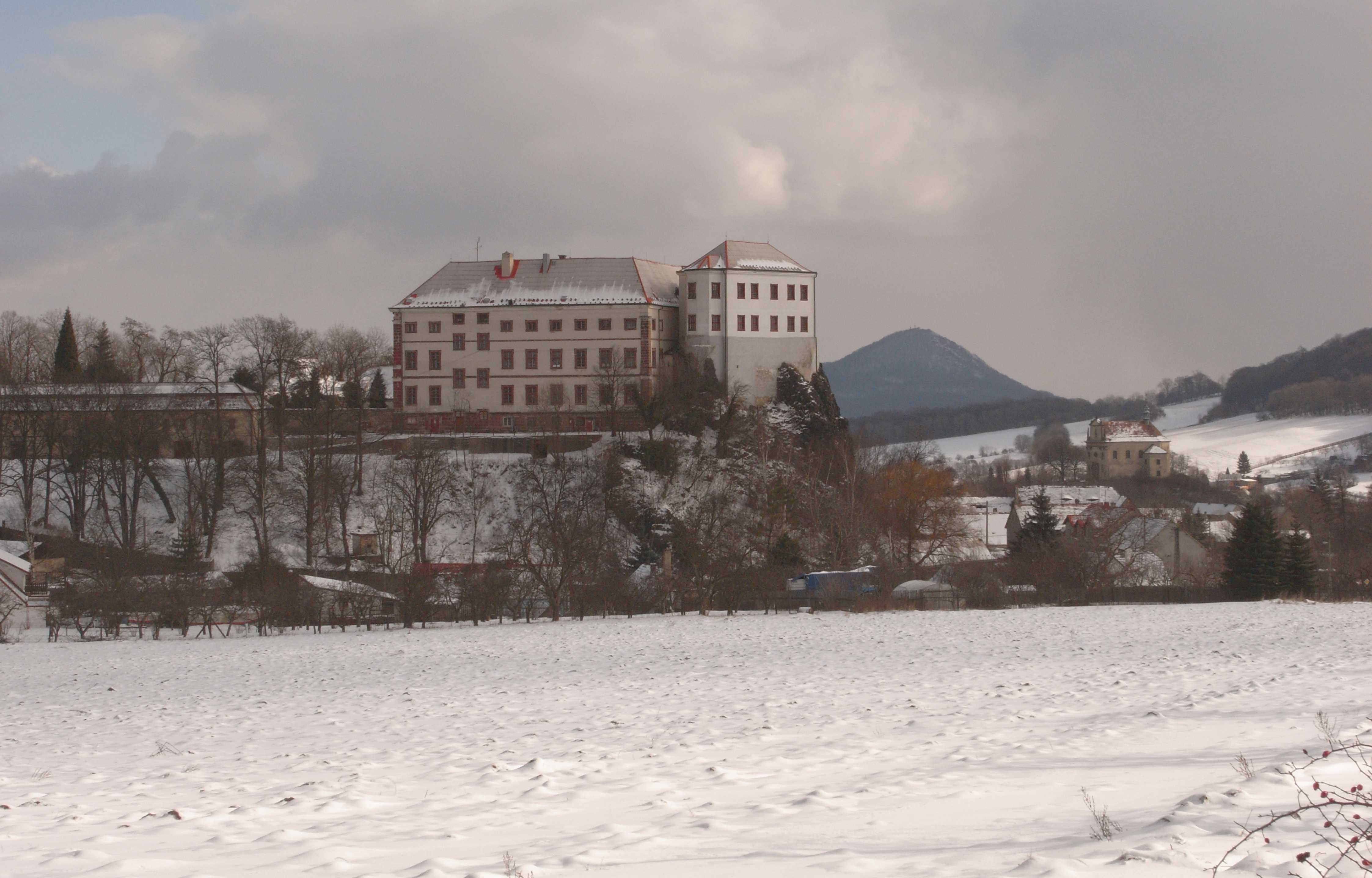 castle Milešov of České Středohoří with mount Lovoš in background (Northern Bohemia, Czech Republic)